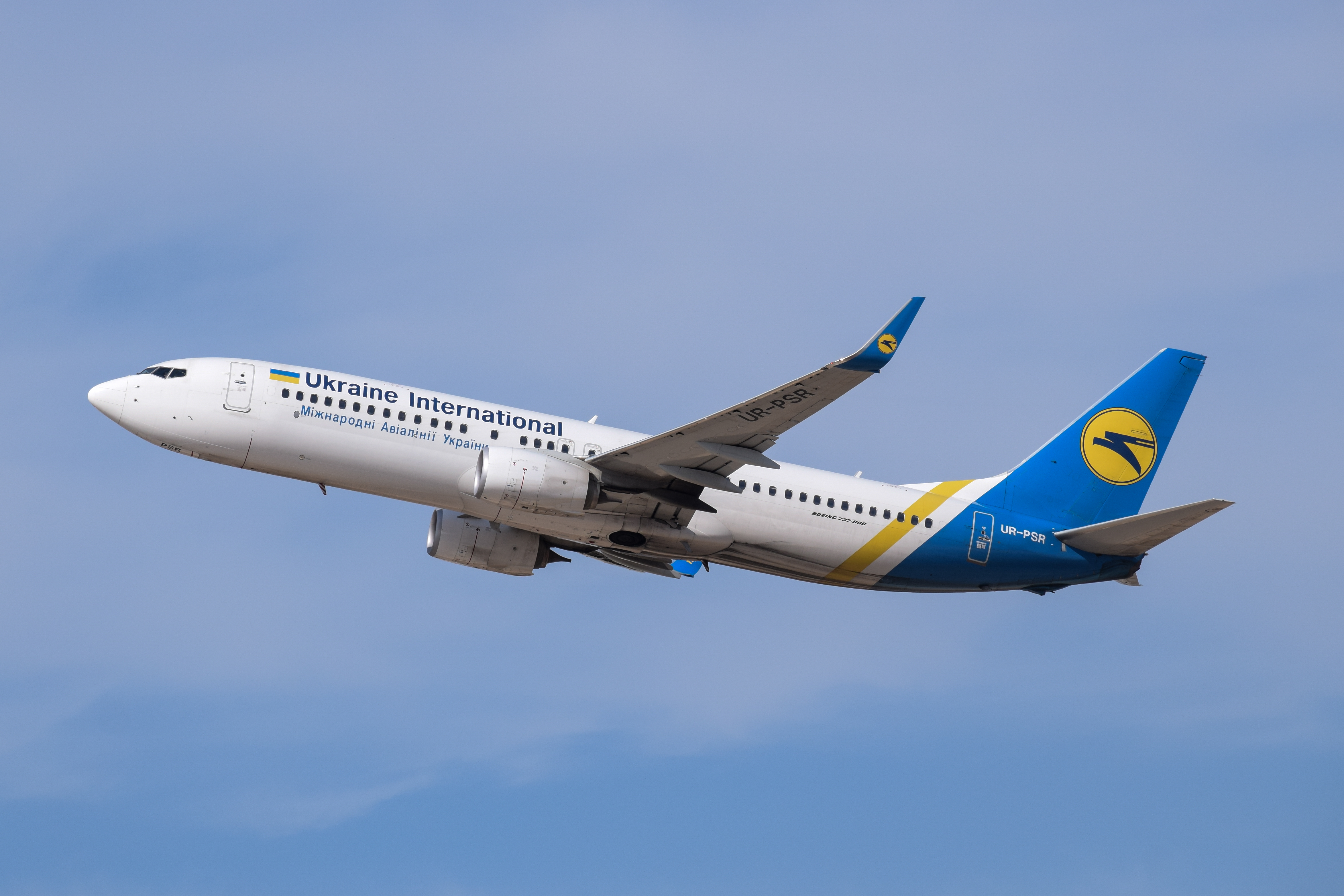 Ukraine International Airlines B738, UR-PSR, TLV